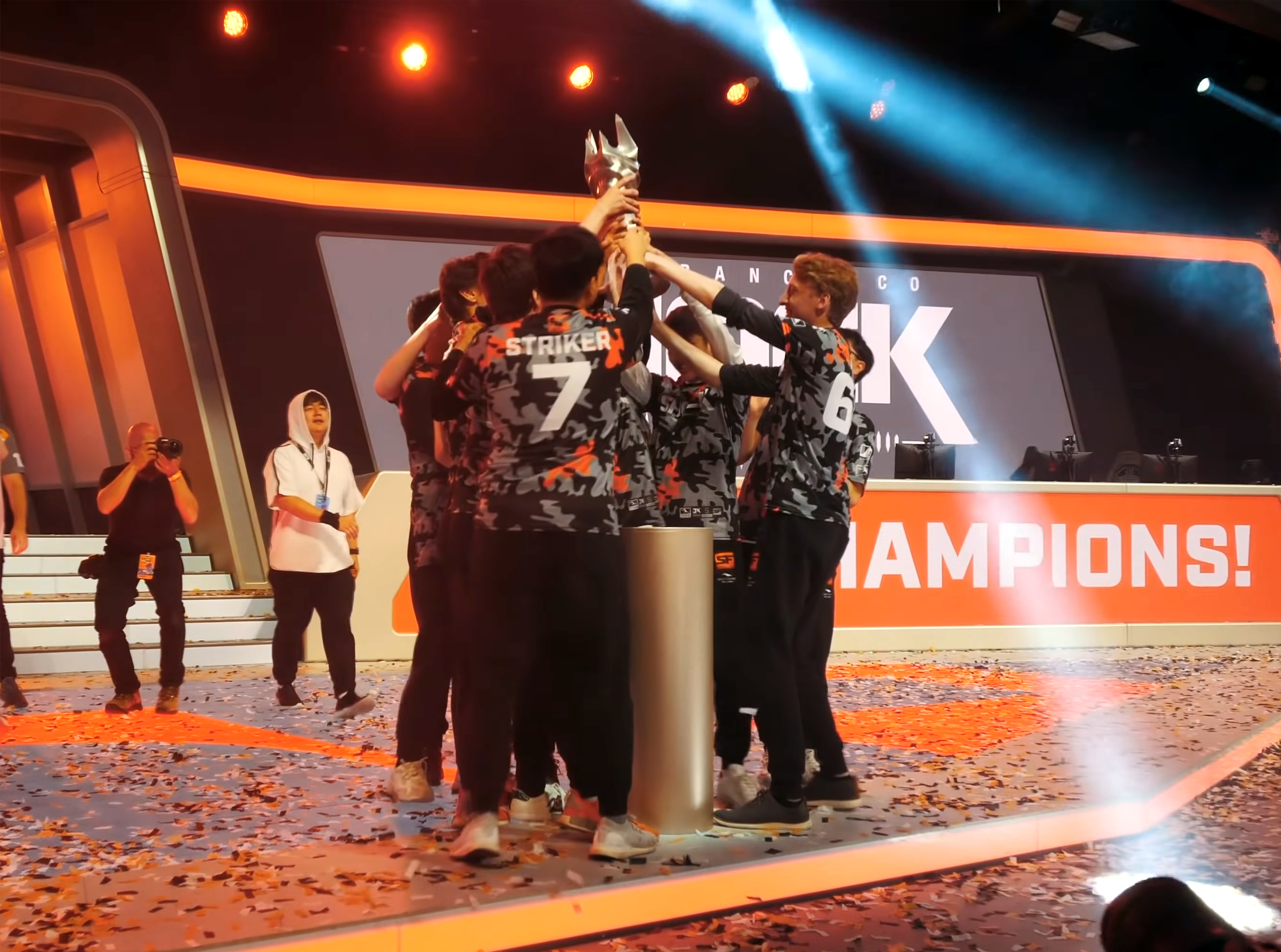 San Francisco Shock hold the 2019 OWL Trophy